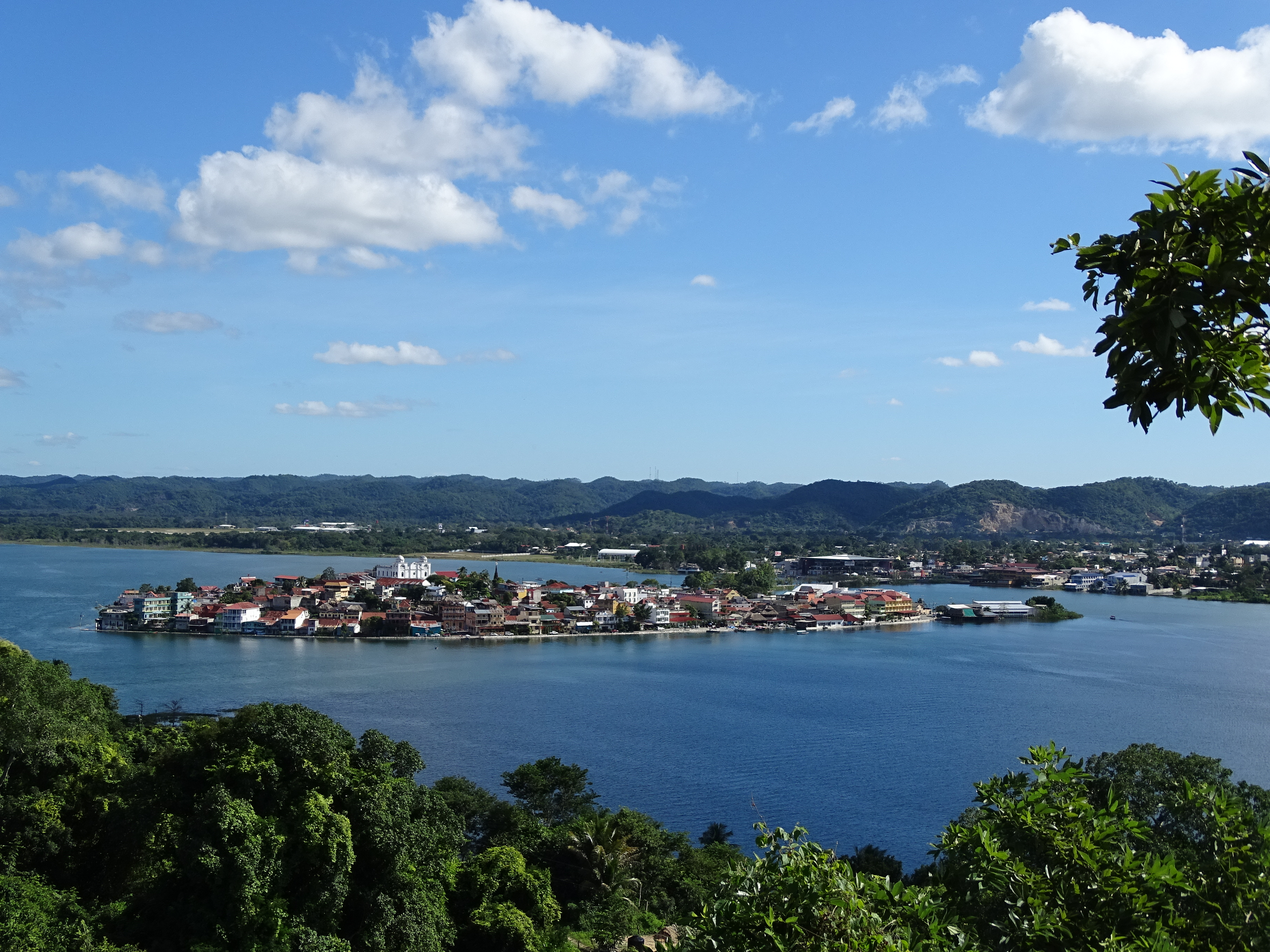 View over Flores from Tayazal Lookout - Peten - Guatemala - 01